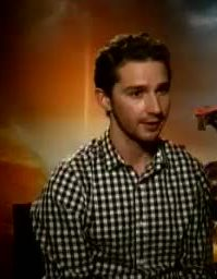 Shia LaBeouf speaks about working with the military on Transformers: Revenge of the Fallen. Screenshot taken from Army Today online video.